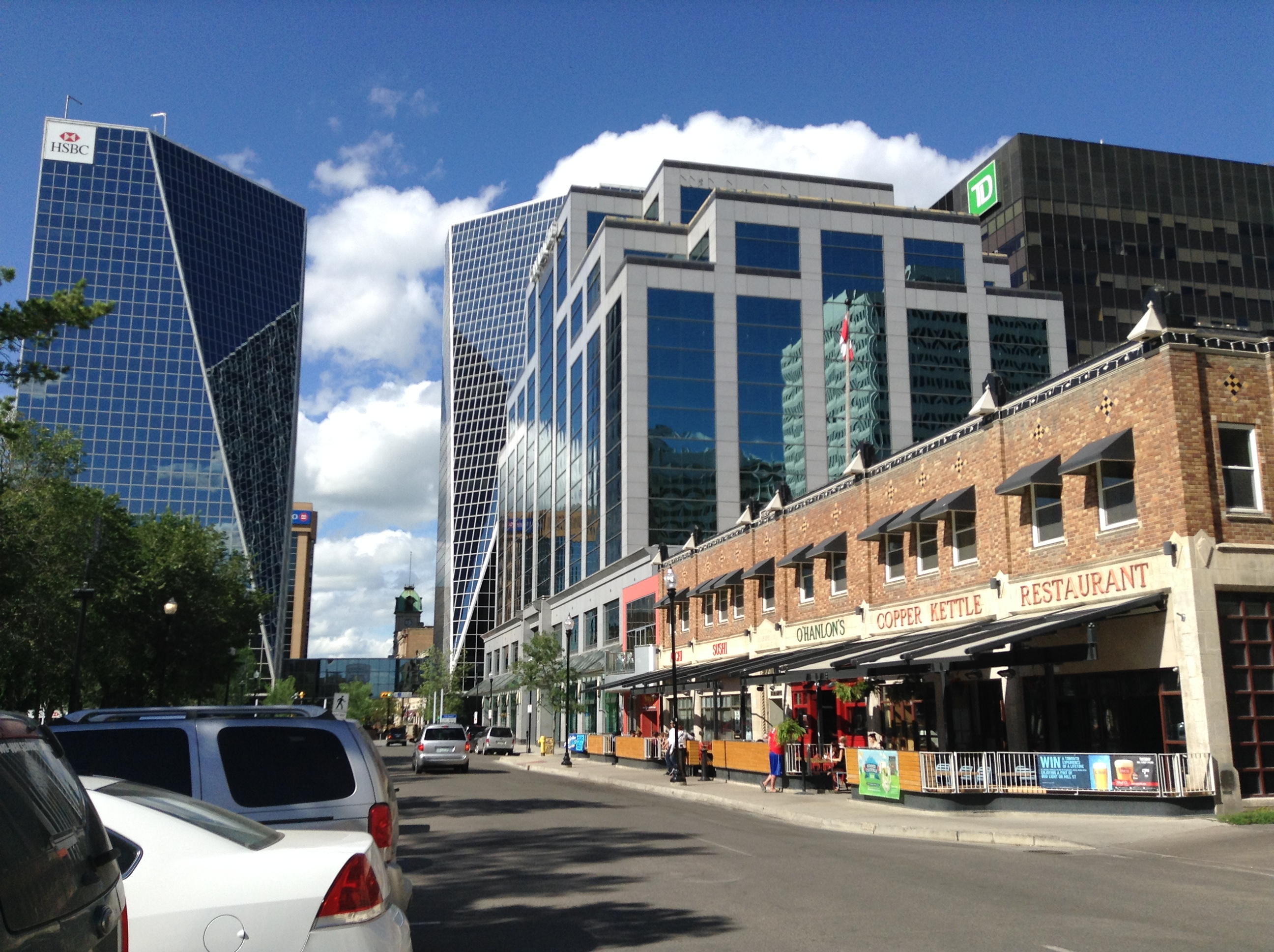 Downtown Regina, Saskatchewan, Canada. Scarth Street in August of 2016. Taken by my iPad.